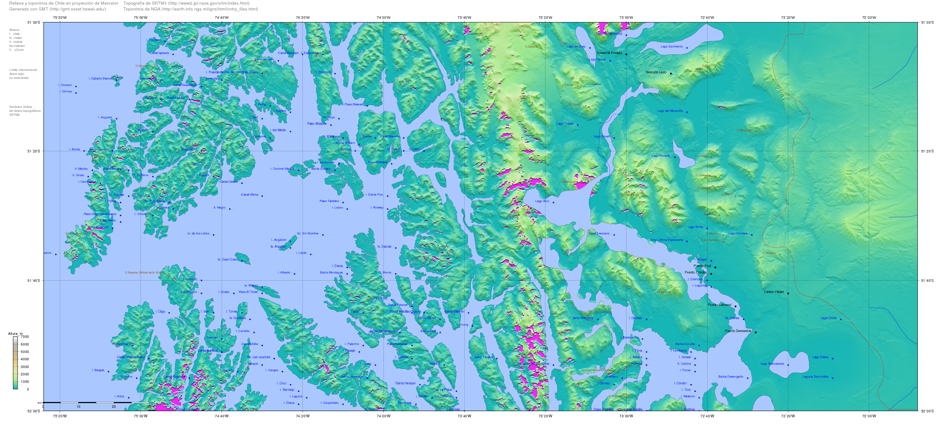 Map of Chile generated with GMT ( topography from SRTM ftp://e0srp01u.ecs.nasa.gov/srtm/version2/SRTM3/ and toponymy from